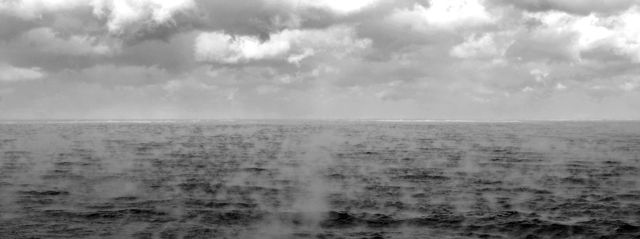 070206-N-5345W-069 Atlantic Ocean - Sea smoke blankets the water's surface in the Atlantic Ocean.